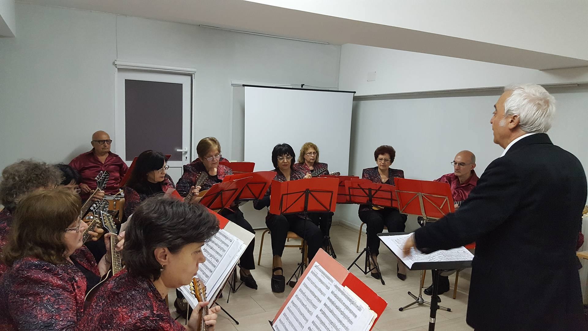 Mandolin orchestra Georgi Atanasov, Pazardzhik in Archeological museum Mieczysław Domaradzki, Septemvri